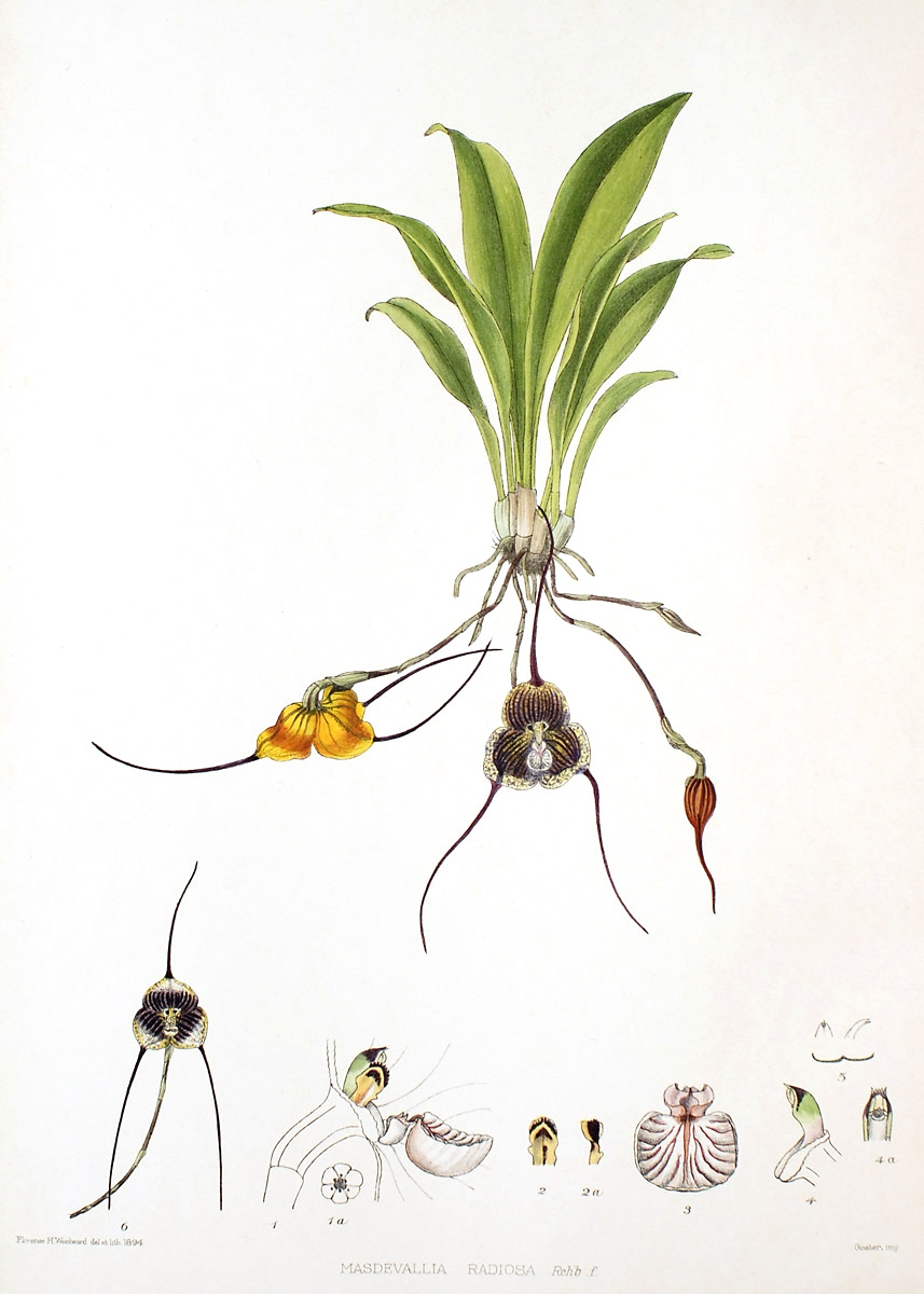 Illustration of Dracula radiosa from Florence H. Woolward: The Genus Masdevallia